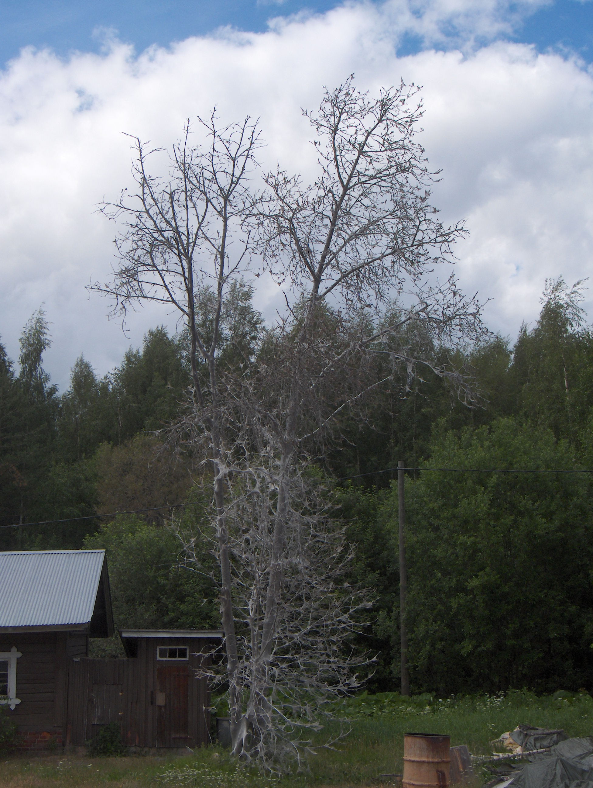 Pictures of an Ermine moth infected Bird Cherry Prunus padus. Uploaded and licensed with permission. Image of a Bird Cherry with Ermine infection.